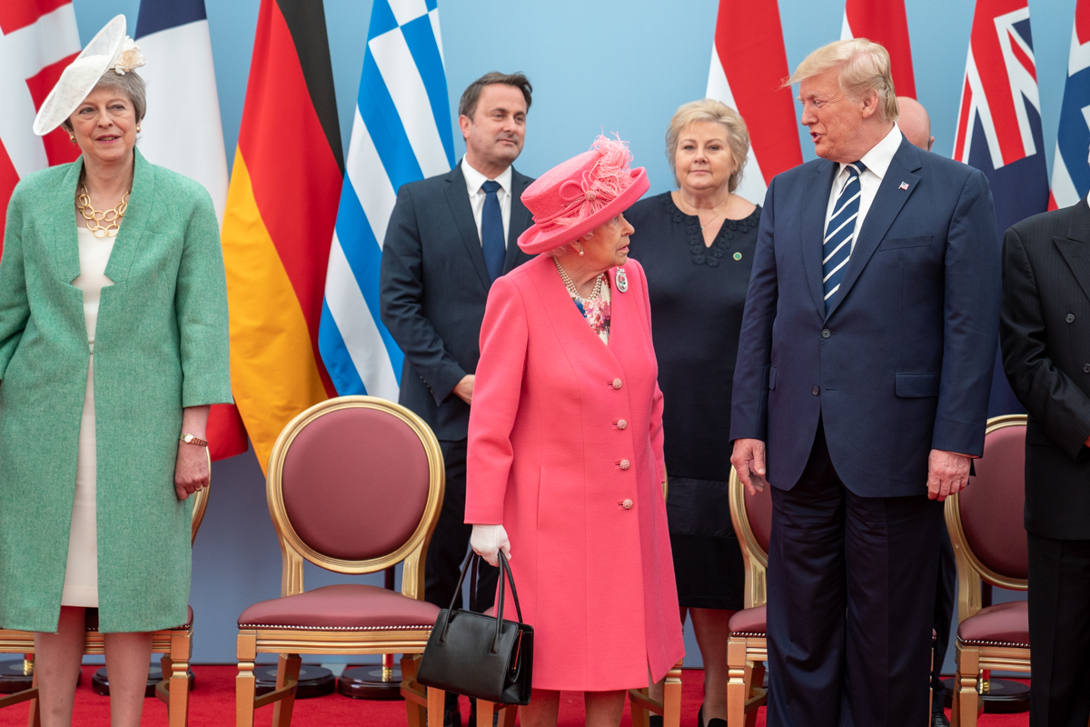 President Donald J. Trump talks with Queen Elizabeth II as they and other D-Day Commemoration leaders gather for a group photo Tuesday, June 4, 2019, prior to the Commemoration Ceremony honoring the 75th anniversary of D-Day in Porstmouth. (Official White House Photo by Shealah Craighead)